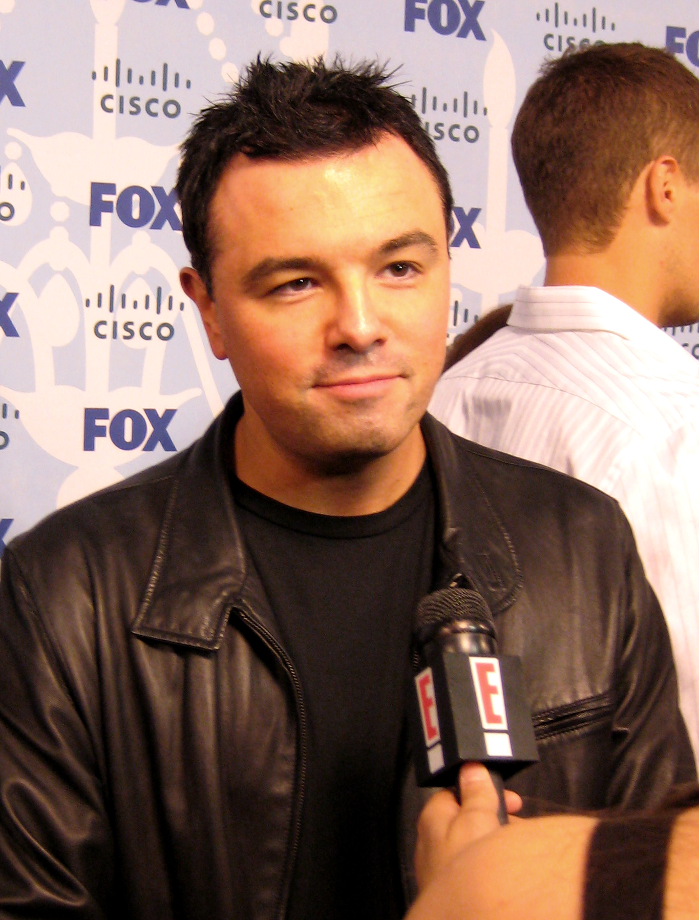 Seth MacFarlane at the Fox Fall Eco-Casino Party, London Hotel, West Hollywood, California. Original description from flickr: - Fox Fall Eco-Casino Party, London Hotel, West Hollywood, California - Sept. 8, 2008.